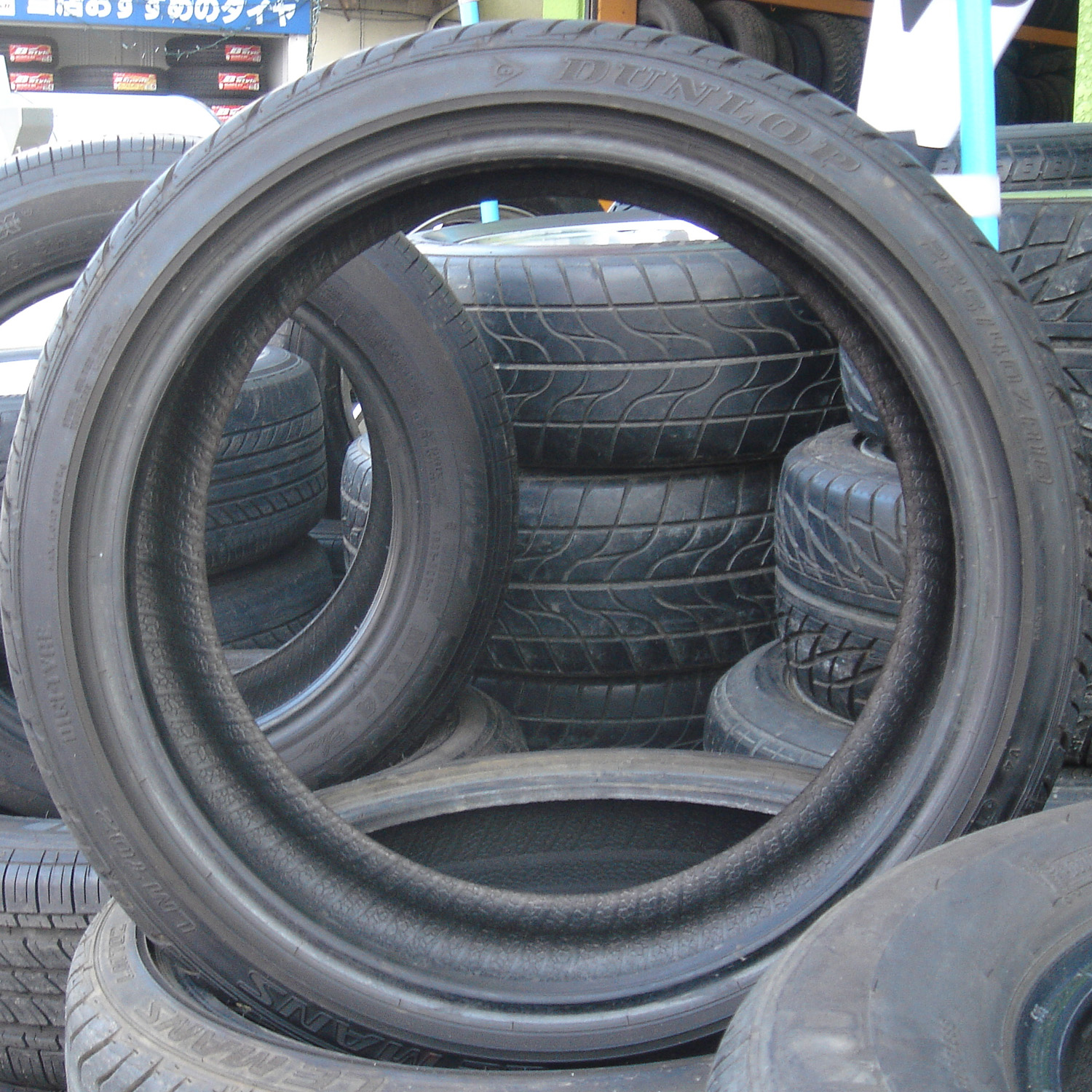 Stacked and standing car tires